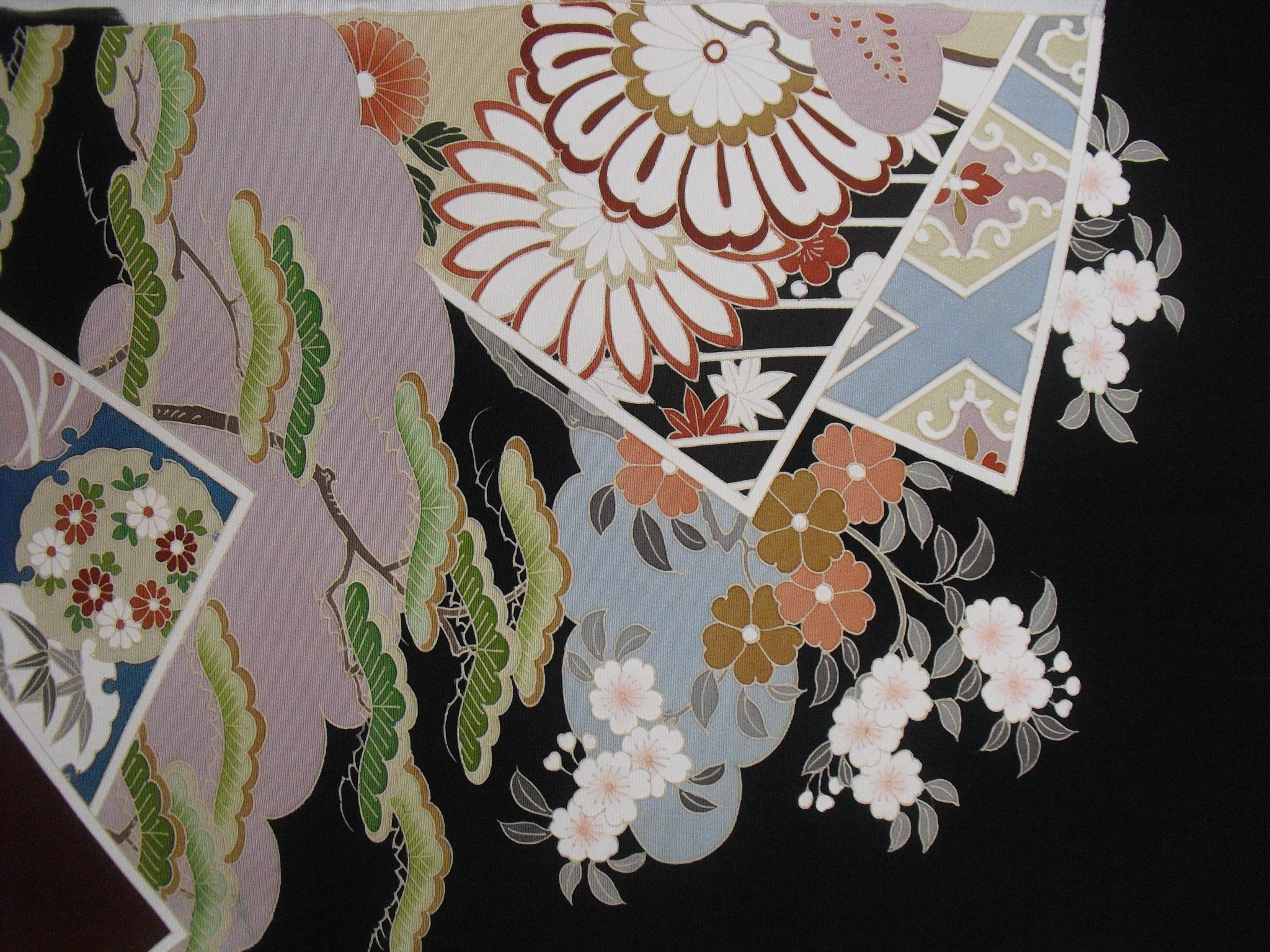 An example of Yûzen-Moyô by Hayashida Hideo (Kyôto, 1958-2015)